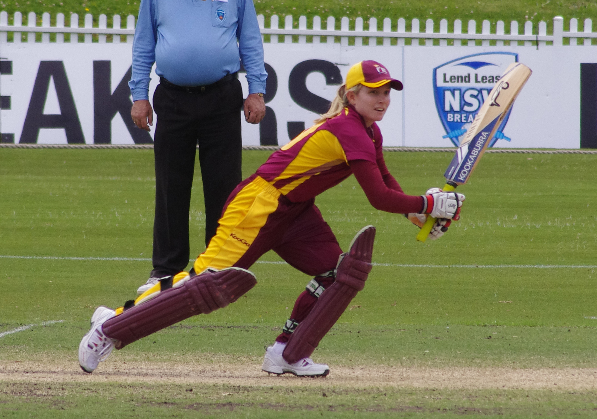 Jodie Fields batting for Queensland Fire